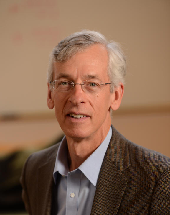 This photo was taken at IPAM